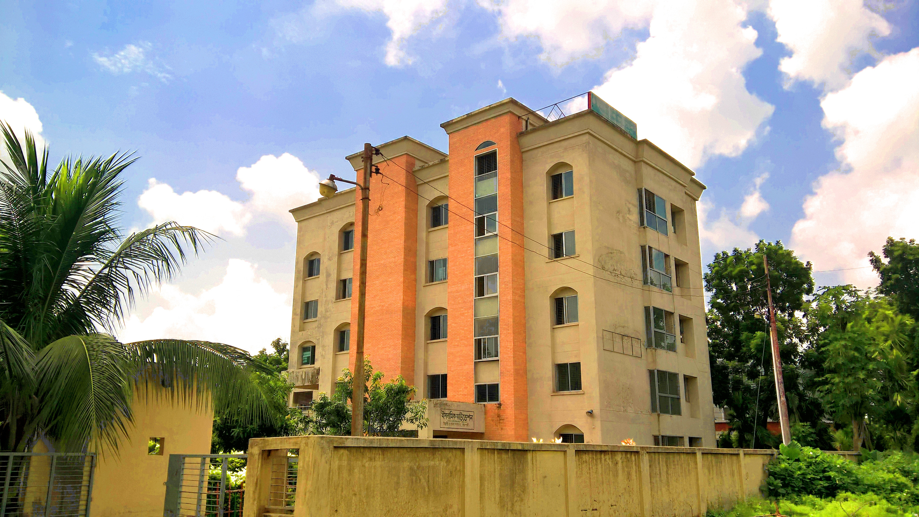 Islamic Foundation Bangladesh is an autonomous organization under the Ministry of Religious Affairs in Bangladesh working to disseminate values and ideals of Islam and carry out activities related to those values and ideals.